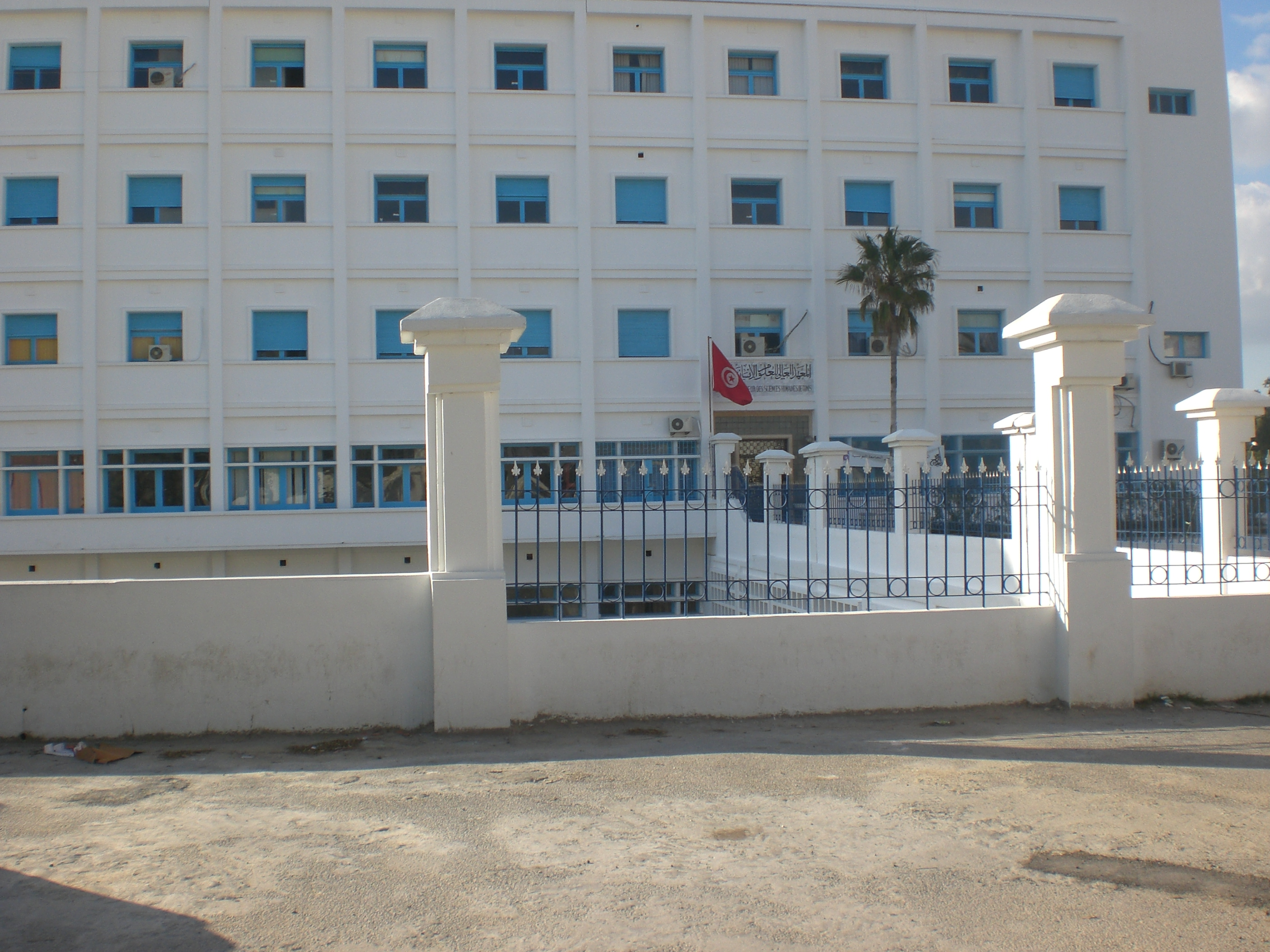 High Institute of Human Sciences in Tunis